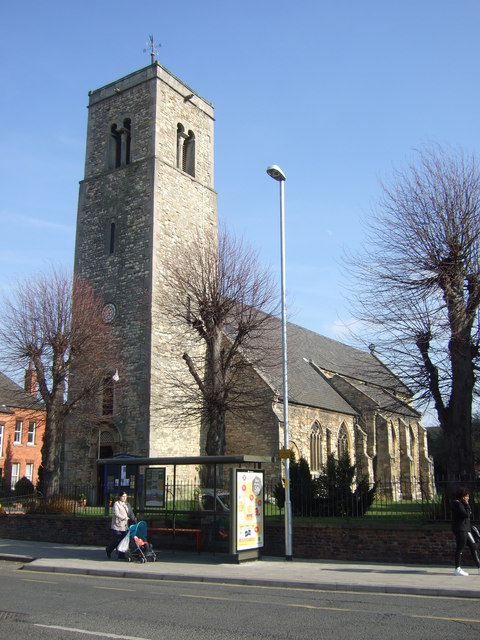 Photograph of St Peter at Gowt Church, Lincoln